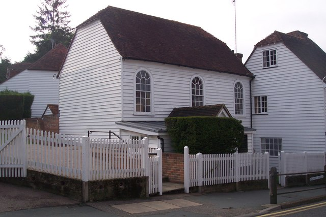 The Particular Baptist Chapel, Cranbrook On The Hill near St. David's Bridge. This Strict and Particular Baptist Chapel, has been converted from two cottages and used for worship since 1787. The round headed windows and the simple gravestones in the front are the only indication that this is something other than a humble weather-boarded cottage.